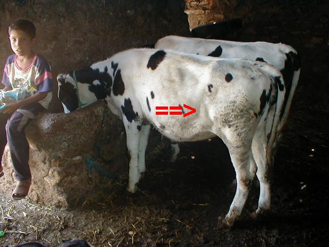 Lymph node enlargement in six-months-old calves in summer in Doukkala, probably an asymptomatic infestation with Theileria annulata Walon: crexhoûle ås coxhrece a des veas d' 6 moes dins les Douccala di l' esté : dandjreus ene atake sins maladeye di Theileria annulata